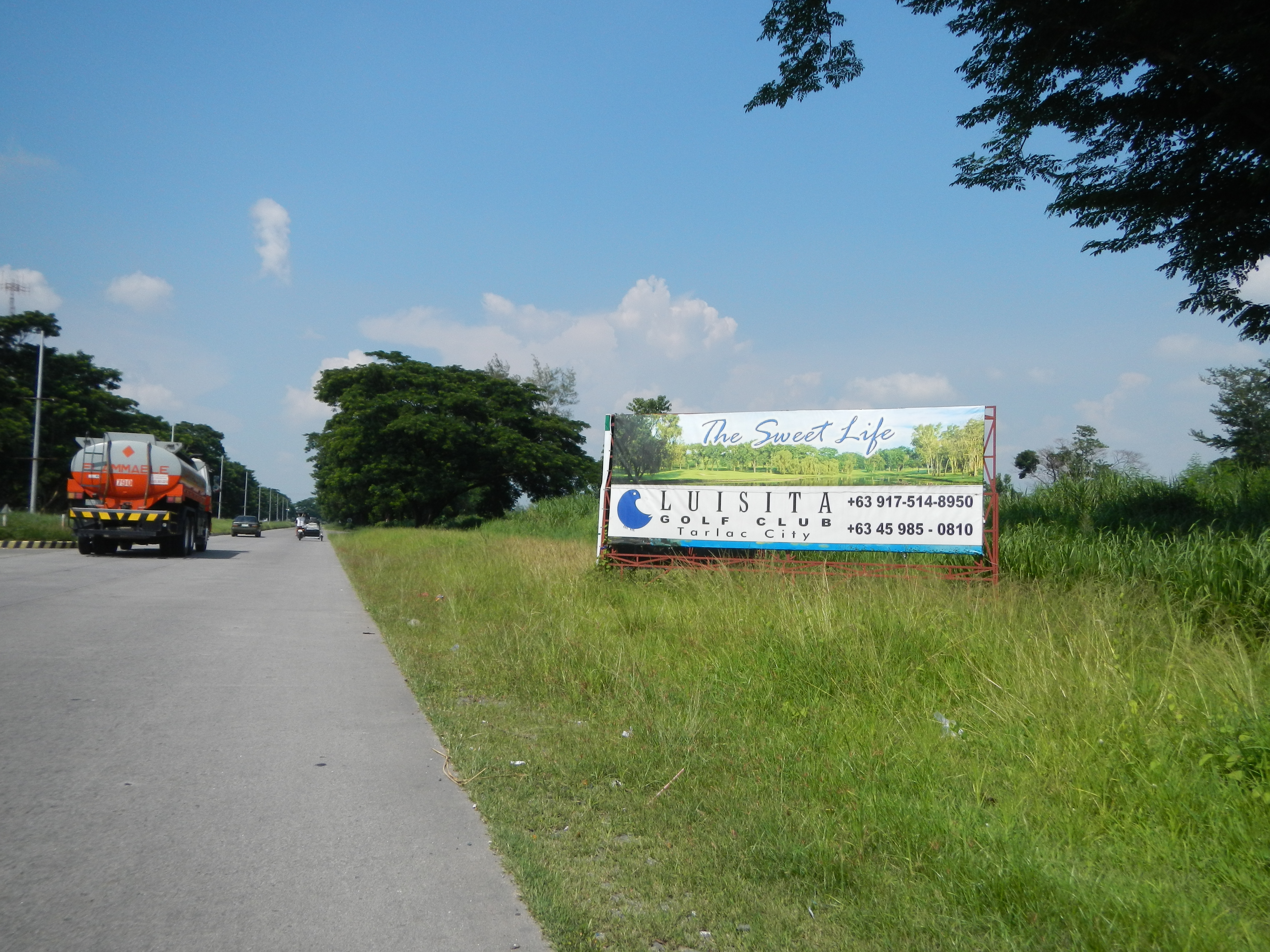 Hacienda Luisita Road (San Miguel, Capehan, Balite, Lourdes, Central and Mapalacsiao, Tarlac City) Hacienda Luisita spans various municipalities in Tarlac province, including the capital Tarlac City founded on 26 November 1881 by a Spaniard, Antonio López y López the estate was named after Antonio's wife, Luisa Bru y Lassús - Road, from Barangay San Miguel, Tarlac to Balite, Lourdes, Central and Mapalacsiao, Tarlac City.